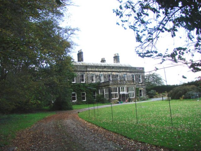 Arthington Hall, Arthington The O/S grid line splits Arthington Hall from west to east. The southern part of the Hall at grid reference SE274449 and the northern part is at grid reference SE274450 267333. This photograph is the southern facade of the Hall. There is also a view of the western facade 267334. It is thought that Arthington Hall stands on the land, if not the buildings, of Arthington Priory which was destroyed during the Dissolution of the Monasteries.